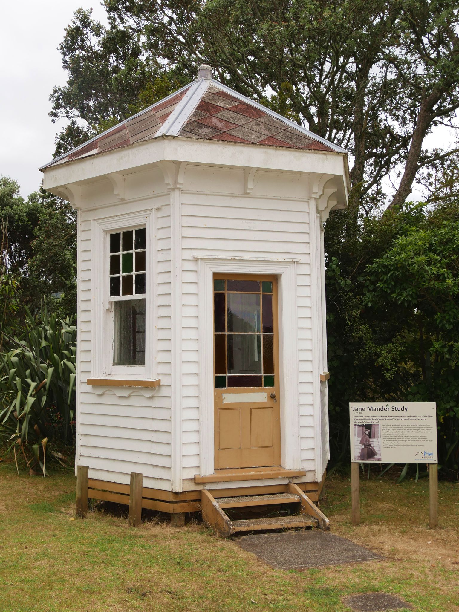 Clarke Homestead (Jane Mander Study), Kiwi North, Heritage Park, Whangarei, Northland, New Zealand, build 1886